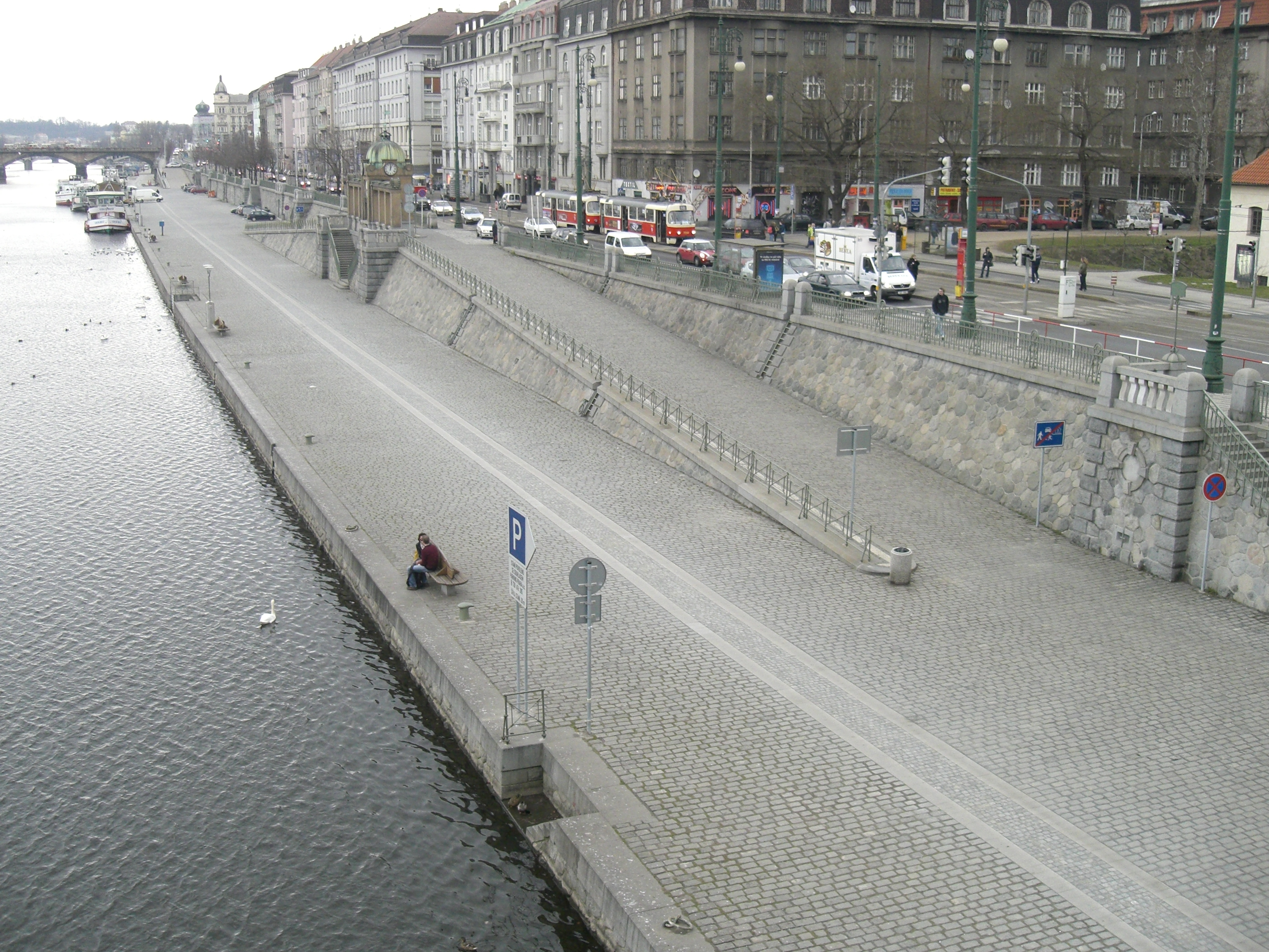 Riverbank near tram station Výtoň, Prague, the Czech Republic